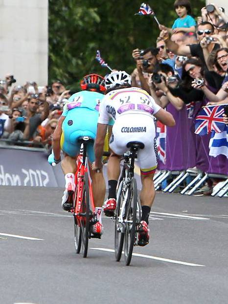 Eventual winner Alexandre Vinokourov heads Colombian Rigoberto Uran past massive crowds leading on to the Mall